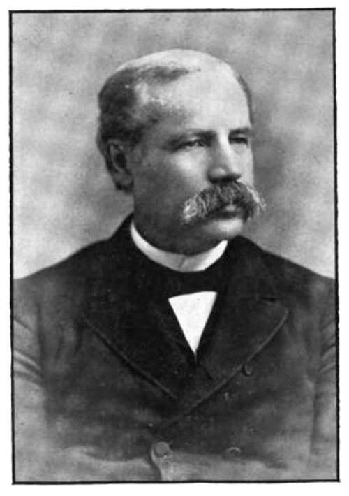 Portrait of Reverend Joseph Leroy Atwell (J. L. A.) Fish while he was pastor at the Baptist Church in Holyoke, MA